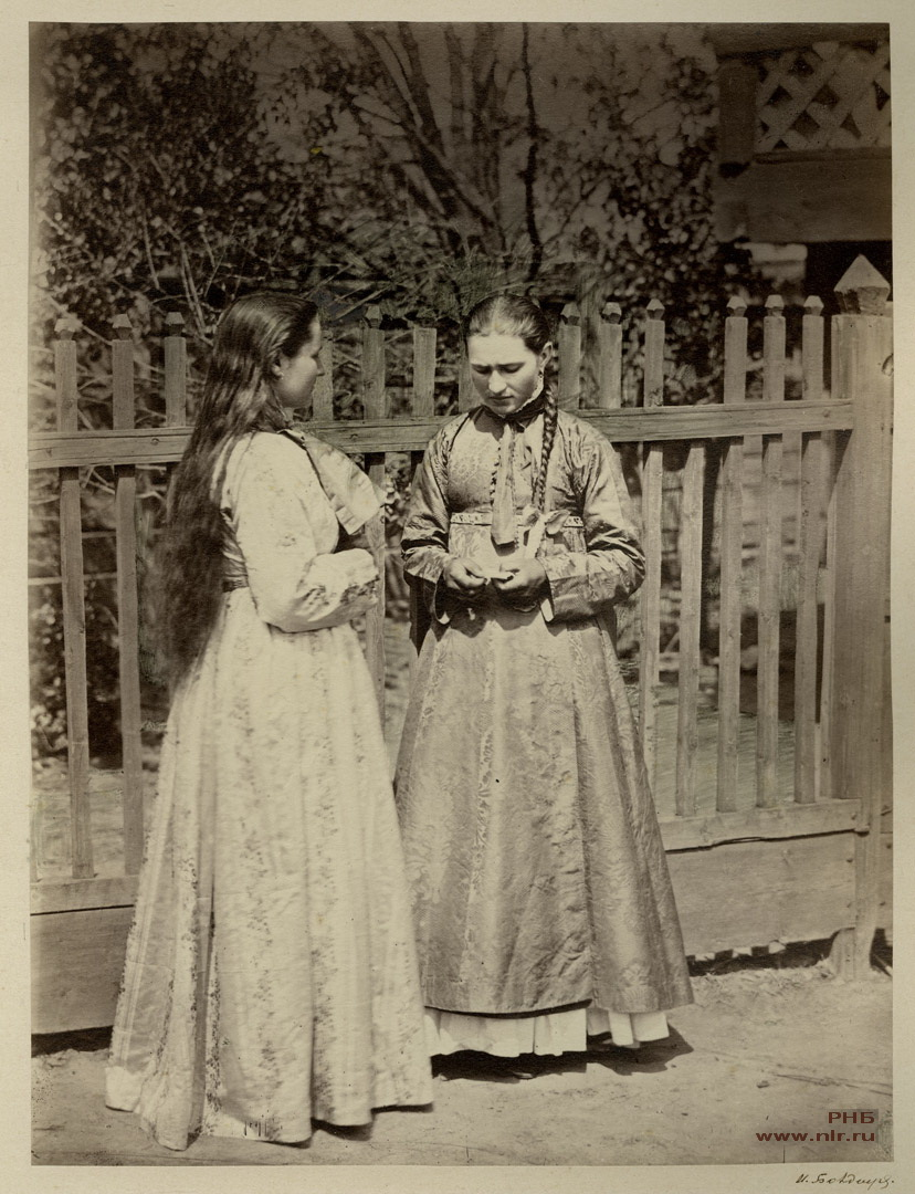 Girls in coubilyaks. Don cossacks traditional feast costume. 1875-1876, Don Cossacks Host. Russian Empire.